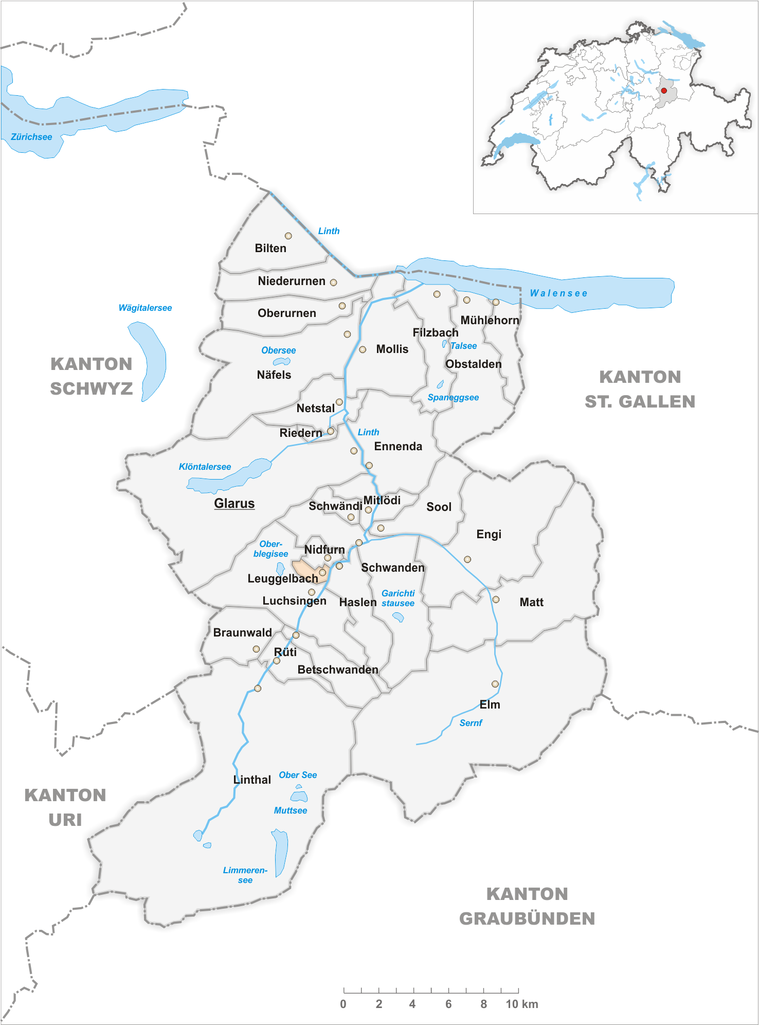 Municipality Leuggelbach Artist: Tschubby